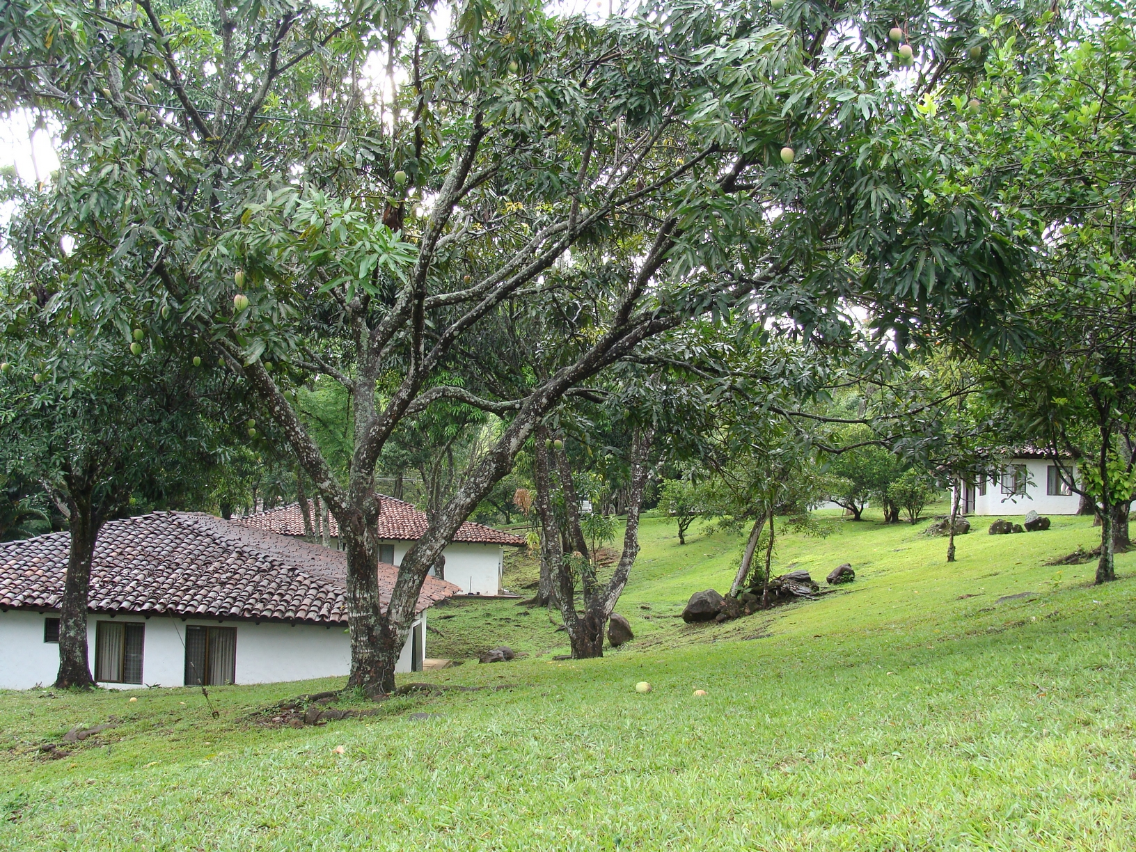 Student Accomodation of INCAE Business School